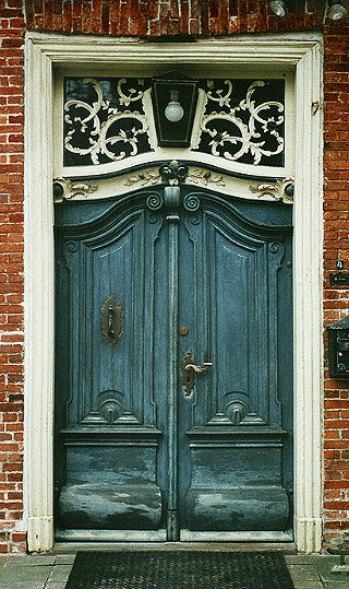 Uetersen (Germany), Monastery, door in the house of the prioressphoto, Photo: 1995